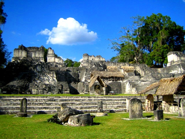 North Akropolis in Tikal